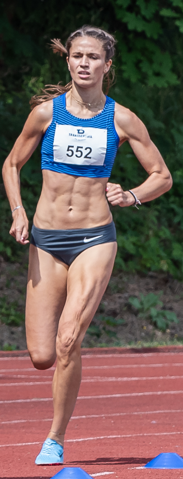 Leichtathletik Gala Linz 2018; women´s 800 m; Vocásková Renata, TJ Dukla Praha (CZE), Marais Danette, TUKS (RSA), Baumgartner Anna, SU IGLA long life (AUT), Kohn Mona-Sophie, SVS-Leichtathletik (AUT)